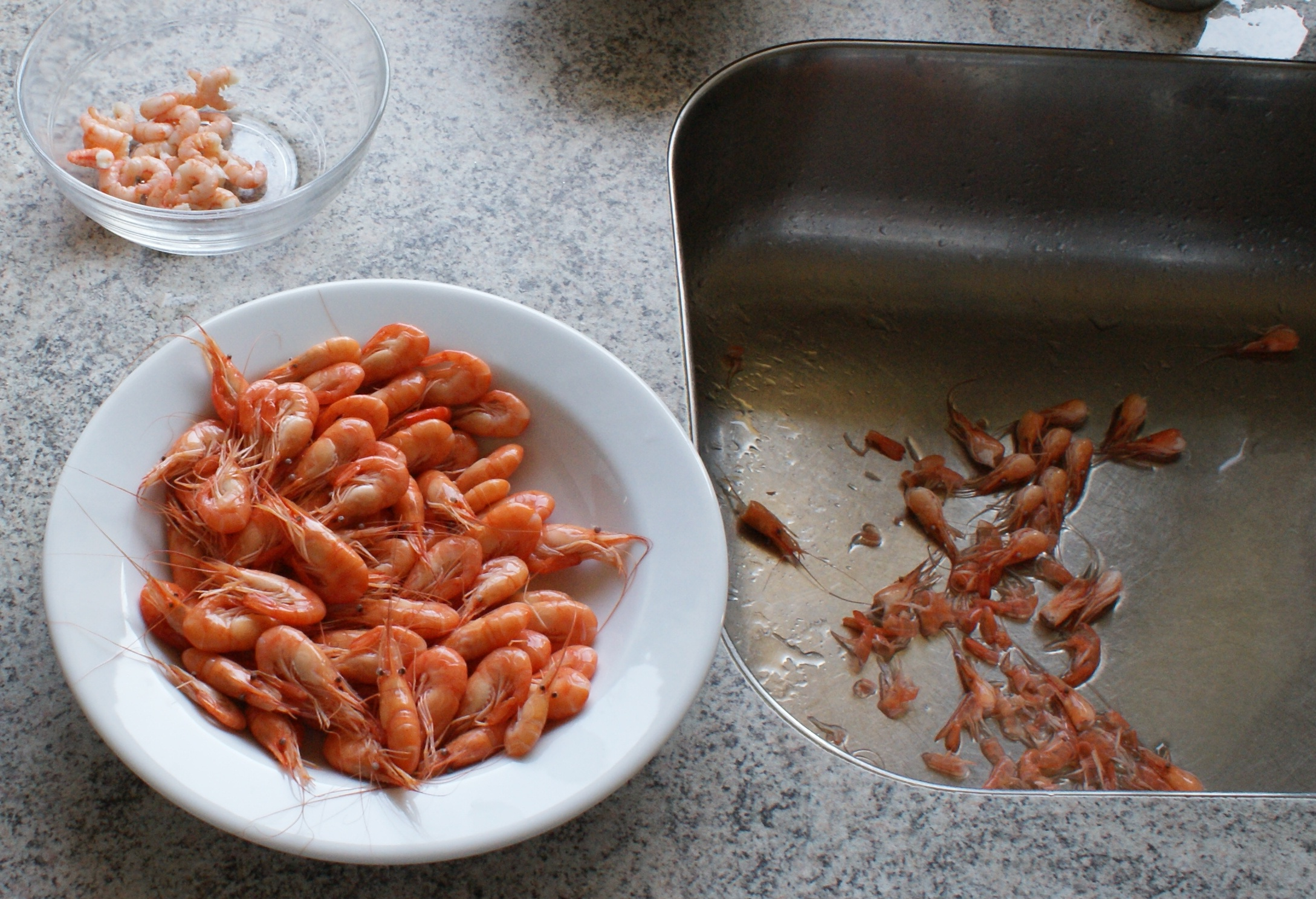 Peeling freshly cooked Baltic prawns (Palaemon adspersus). The prawns were caught using a small net with a flat wooden frame scraping the sea floor in less 1 m deep water in Dragstrup Vig, Mors, Denmark while wading through the water.